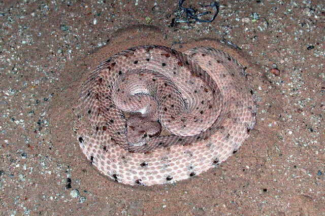 Crotalus cerastes — Sidewinder rattlesnake. Native to desert sand dunes, and other habitats, in California and the Southwestern U.S.